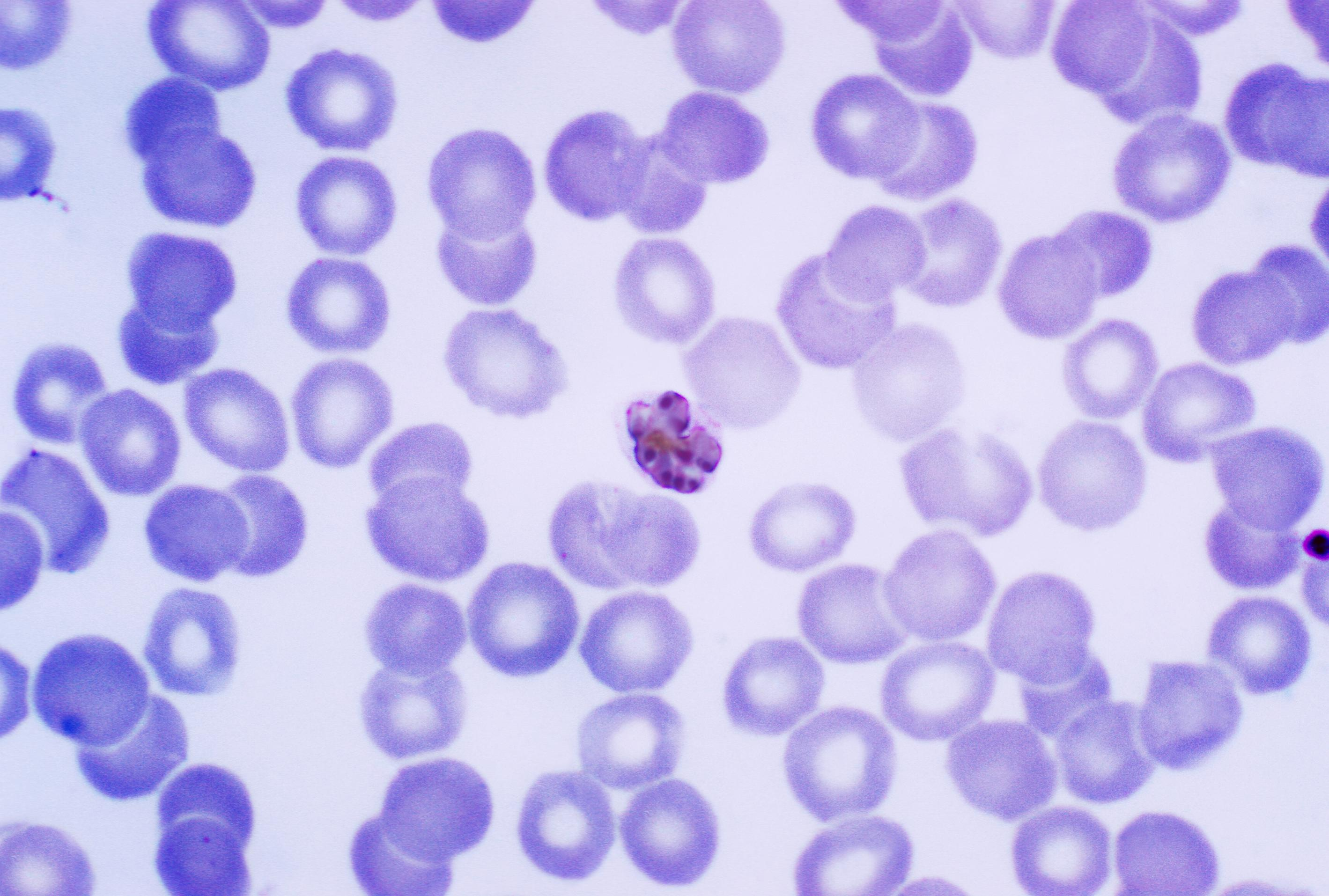 This photomicrograph shows a mature Plasmodium malariae schizont within an infected RBC. This mature P. malariae schizont is contained within a normal sized RBC. The parasite contains 6-12 merozoites with large nuclei, and has a coarse, dark brown pigment.